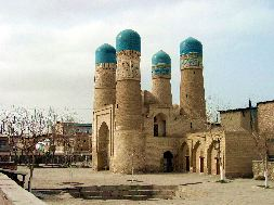 Chor Minor in Bukhara, Uzbekistan.